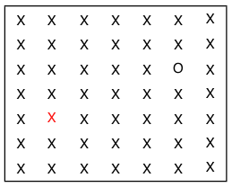 Singleton